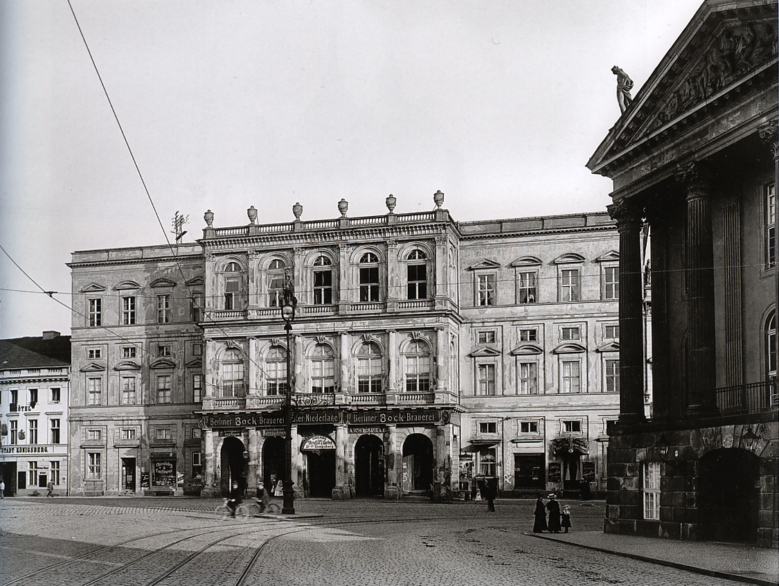 Potsdam, Palast Barberini seen from the northwest, photography from 1907.